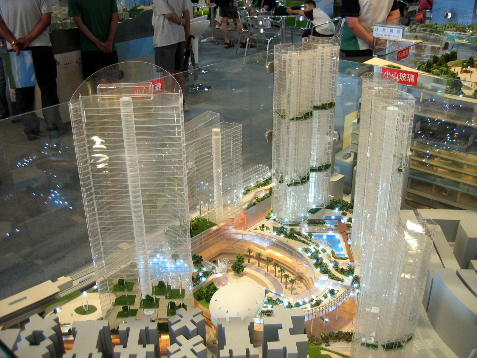 MLA Architects (HK) LTD Kwun Tong Town Centre Project Model